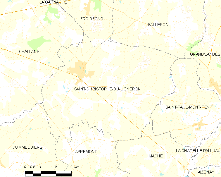 Map of French municipality Saint-Christophe-du-Ligneron